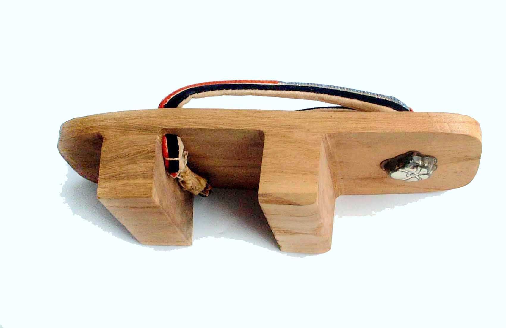 Side view of Geta, photo taken in Japan